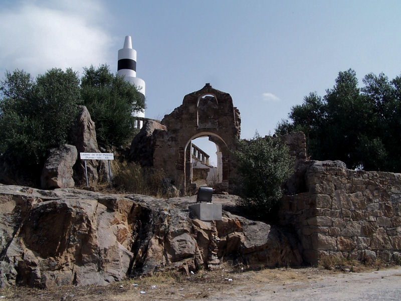 To see (PT)